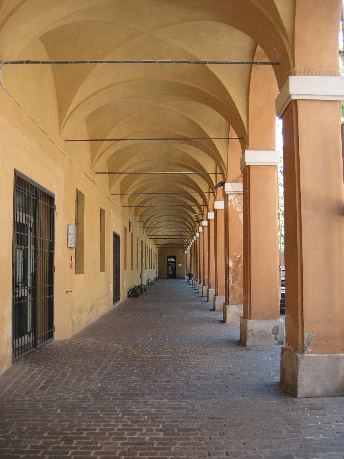 former barracks of the fascist period in Ferrara